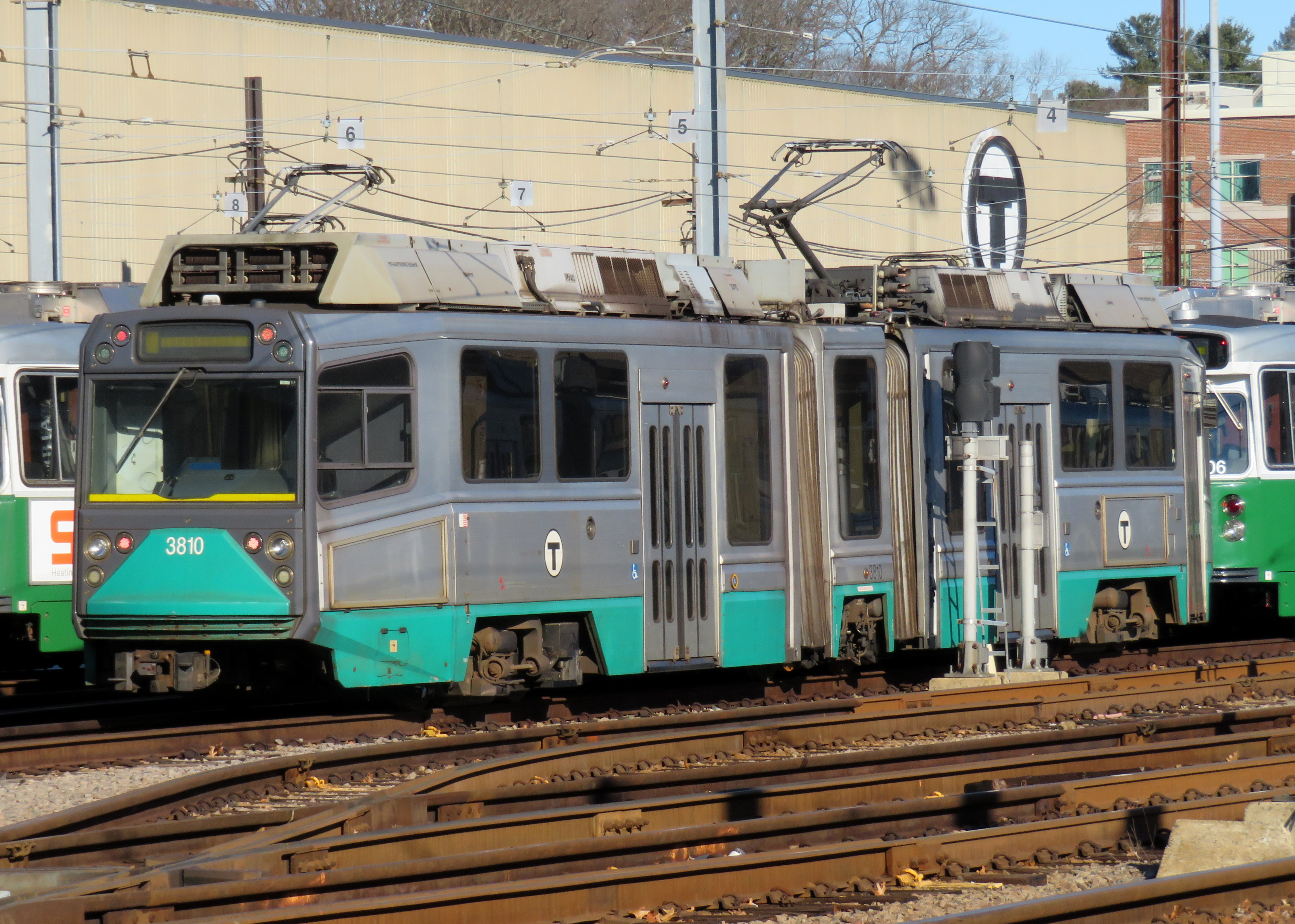 MBTA #3810, a Type 8 LRV, at Riverside Yard in December 2018